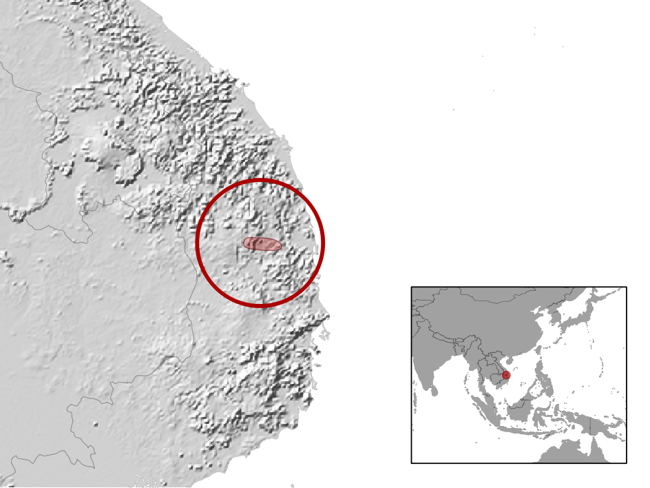 geographic distribution of Lygosoma carinatum